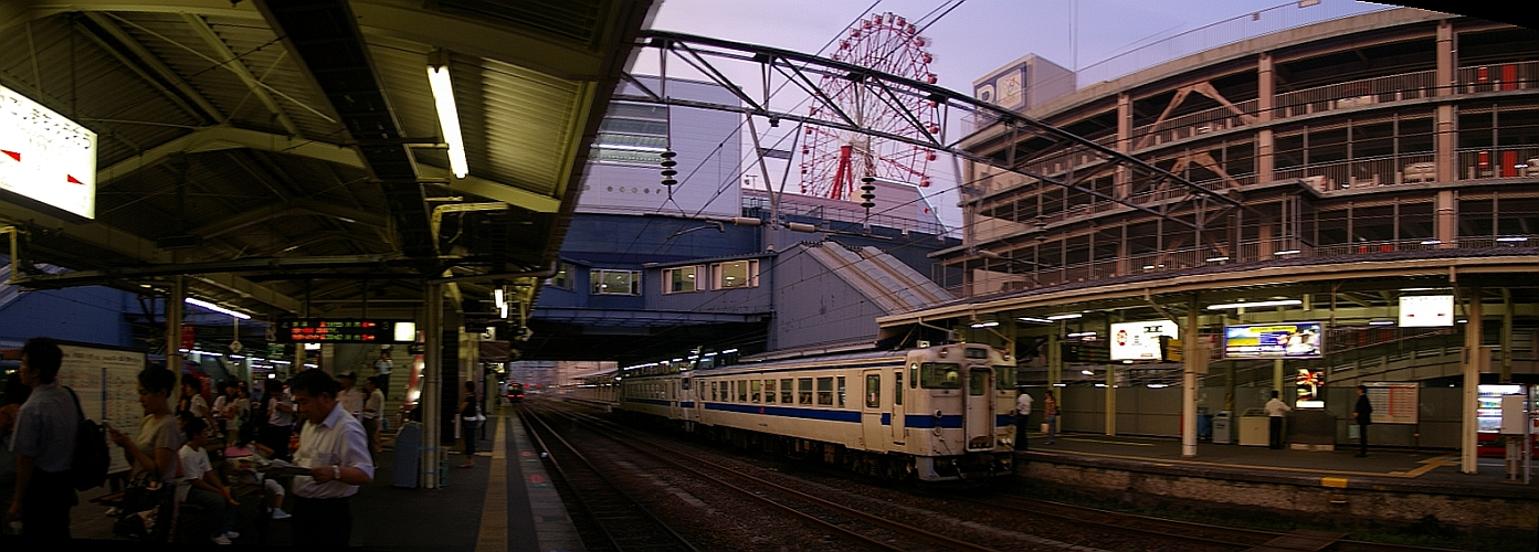 The View of Sta.Kagoshima-Chuou